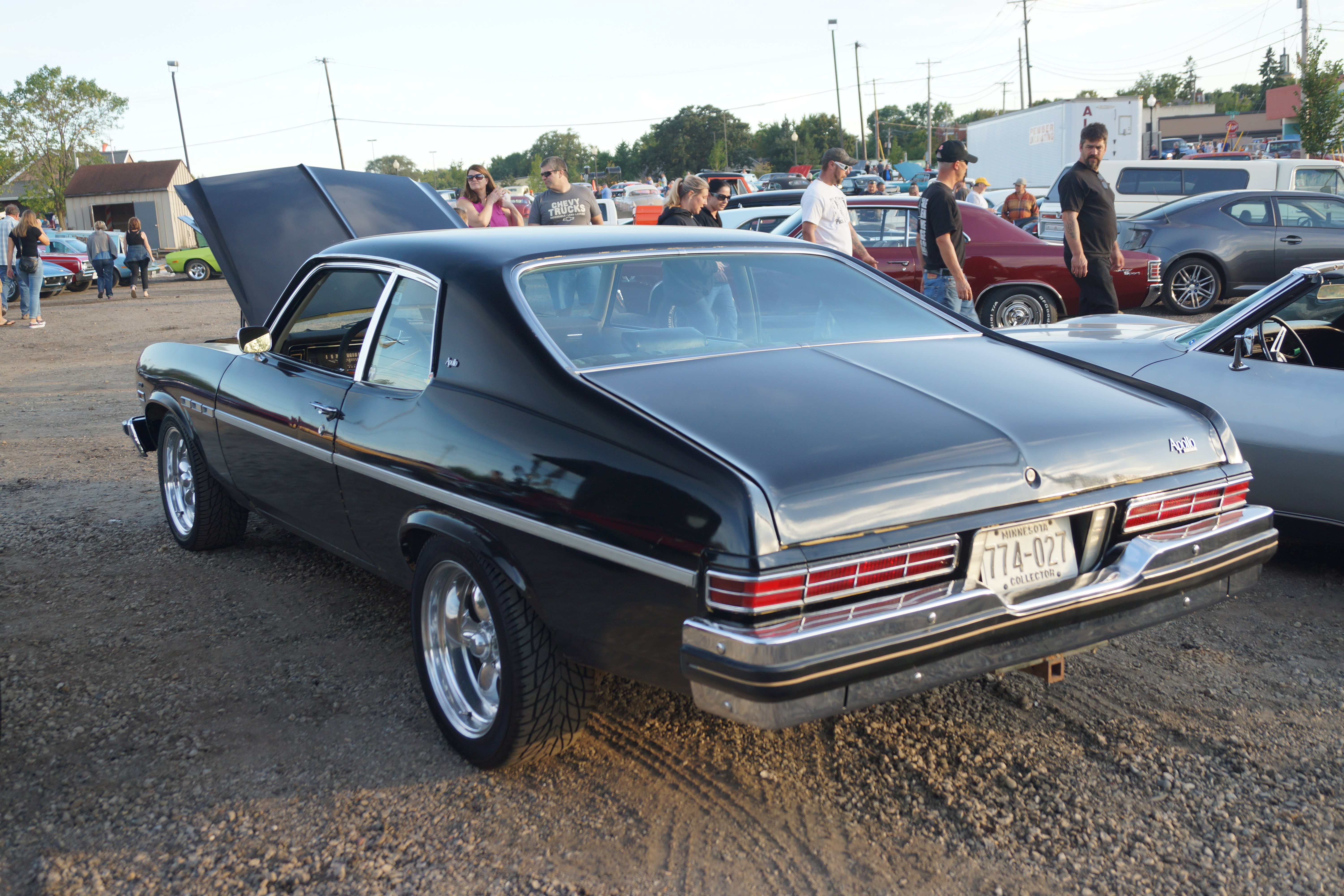 HISTORIC DOWNTOWN HASTINGS CRUISE-IN & CLASSIC CAR SHOW Hastings, Minnesota September 2016 Click here for more car pictures at my Flickr site.